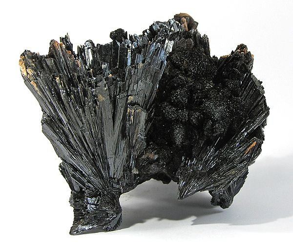 Goethite Locality: Crystal Peak area, Teller County, Colorado, USA (Locality at ) Size: 5.9 x 5.2 x 5.2 cm. Goethite is pretty ugly in most of its forms, and is rarely seen in actual crystals. One exception is these Colorado specimens, where you see these sprays of lustrous crystals - here, to almost 4 cm in length. Ex. Dave Stoudt Collection.